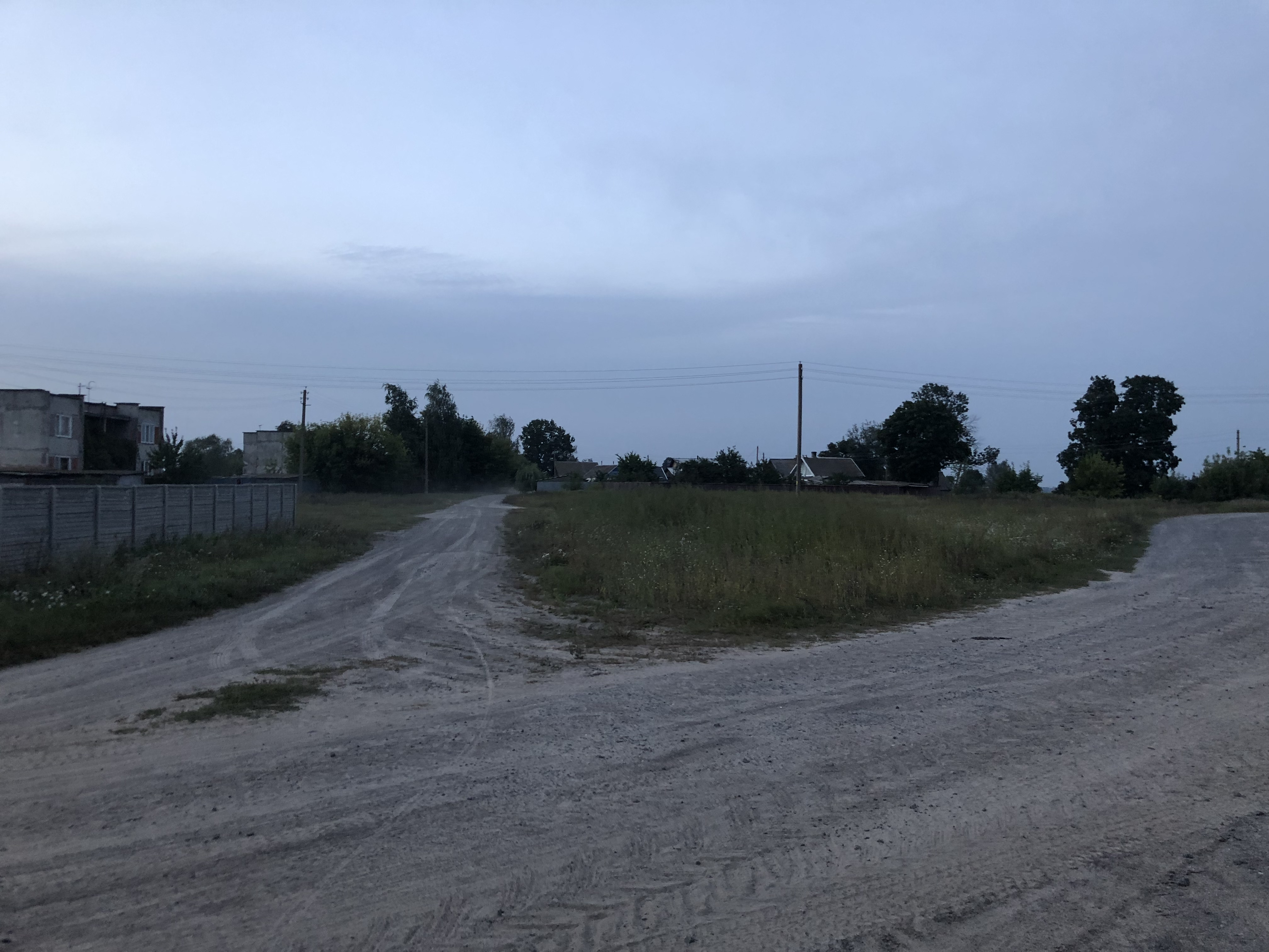 Zelenye Luki Gomel Region 2018 September